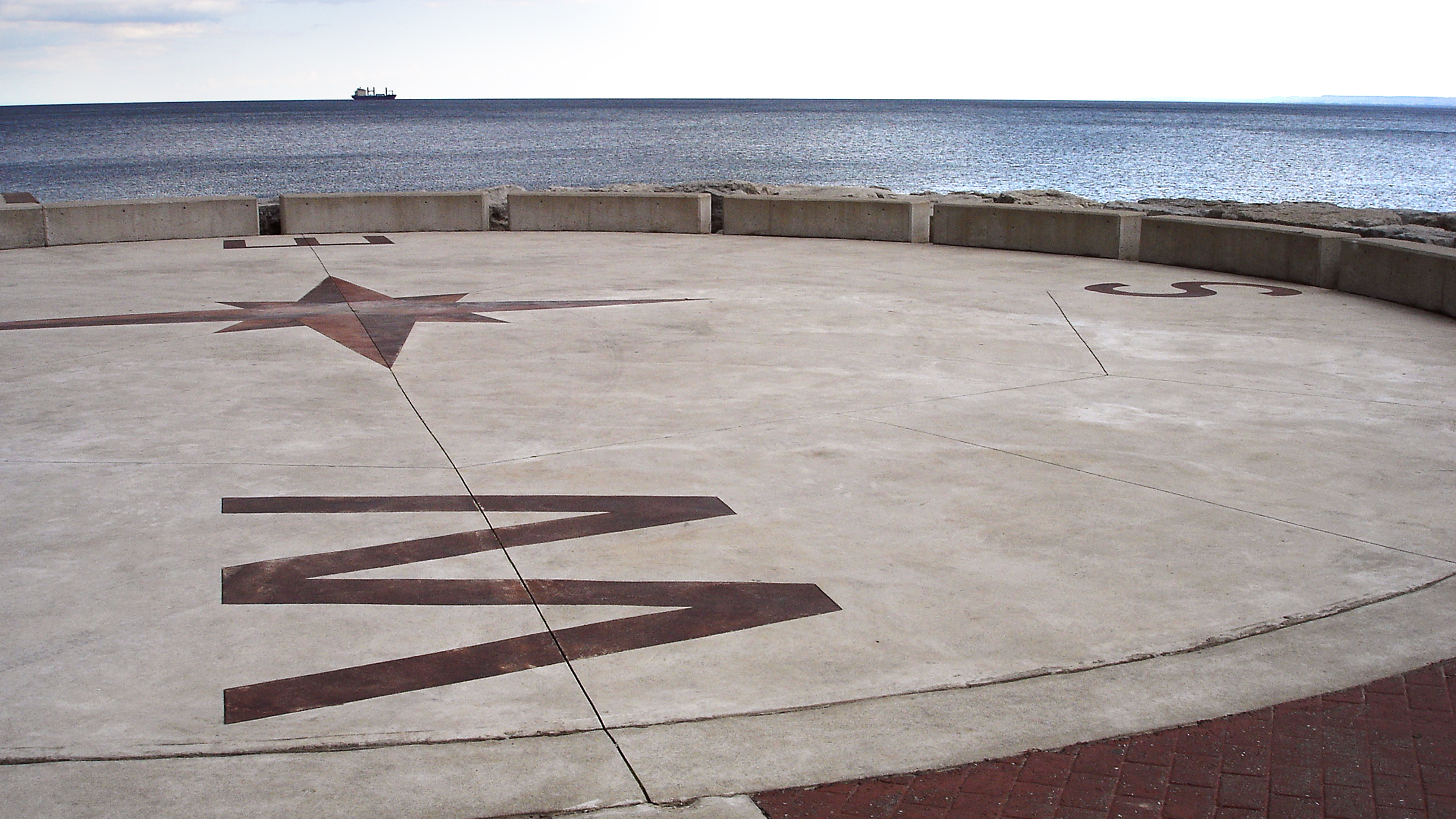 Lake Ontario seen from the "compass" design in the walkway of Spencer Smith Park, on the shoreline of Burlington, Ontario, Canada.